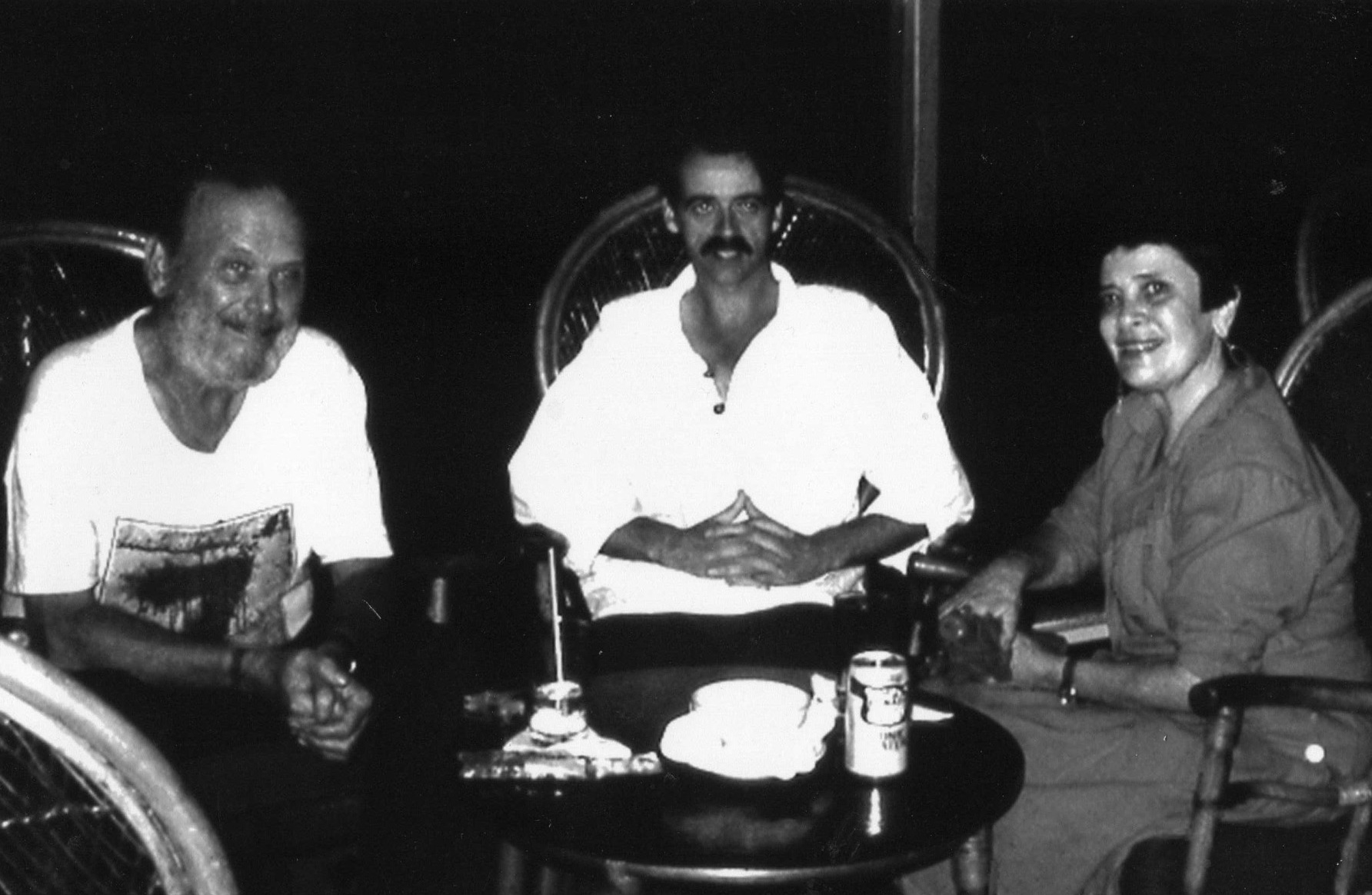 Photograph of Bill Lewis, Claribel Alegria and Darwin J Flakoll (Bud) at the InterContinel Hotel, Managua, Nicaragua - taken by Ann Lewis